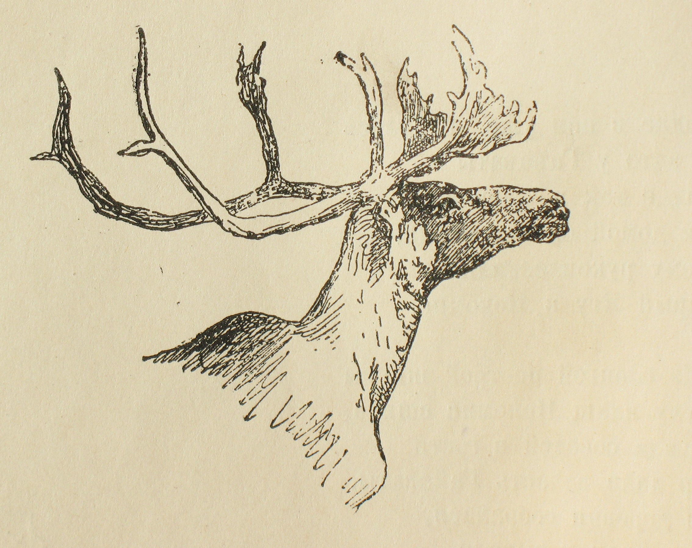 Henry Wadsworth Longfellow, The Song of Hiawatha, Moscow, 1931. Published by OGIZ.